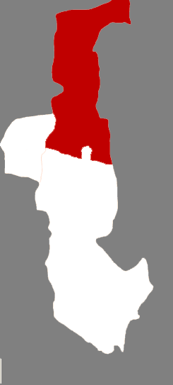 Location of Haibowan districtr in Wuhai City, China